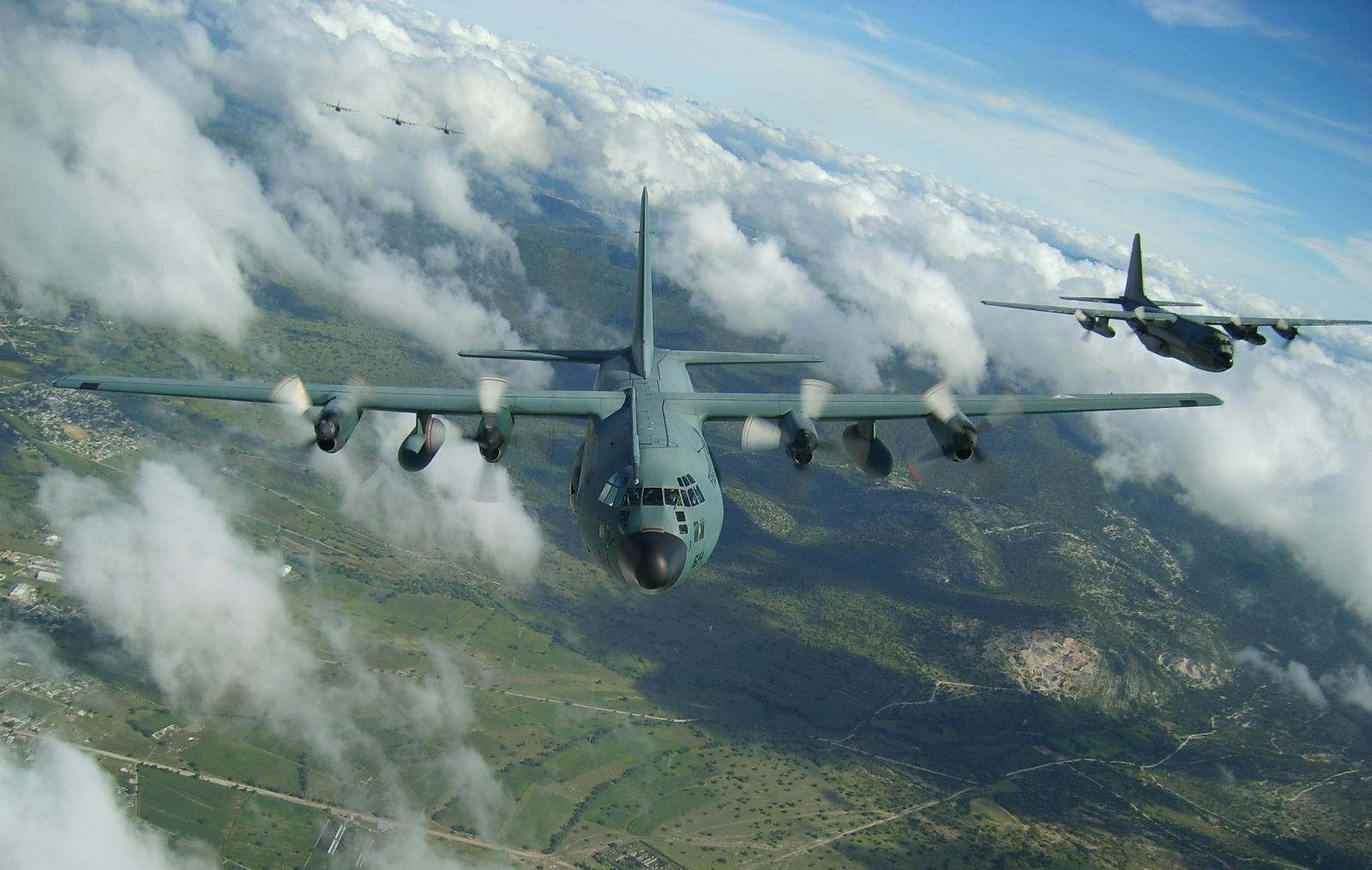 C-130s airplanes in a practice one week before the Mexico's independence day air parade.